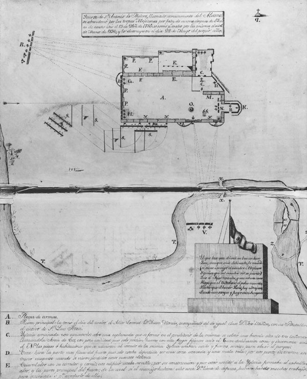 Plan of the Alamo, by José Juan Sánchez-Navarro, 1836. This manuscript map, part of an official military report on the fall of the Alamo, clearly shows where the Mexicans had positioned their cannons (at R and V) and the line of attack of troops under General Cos (S).